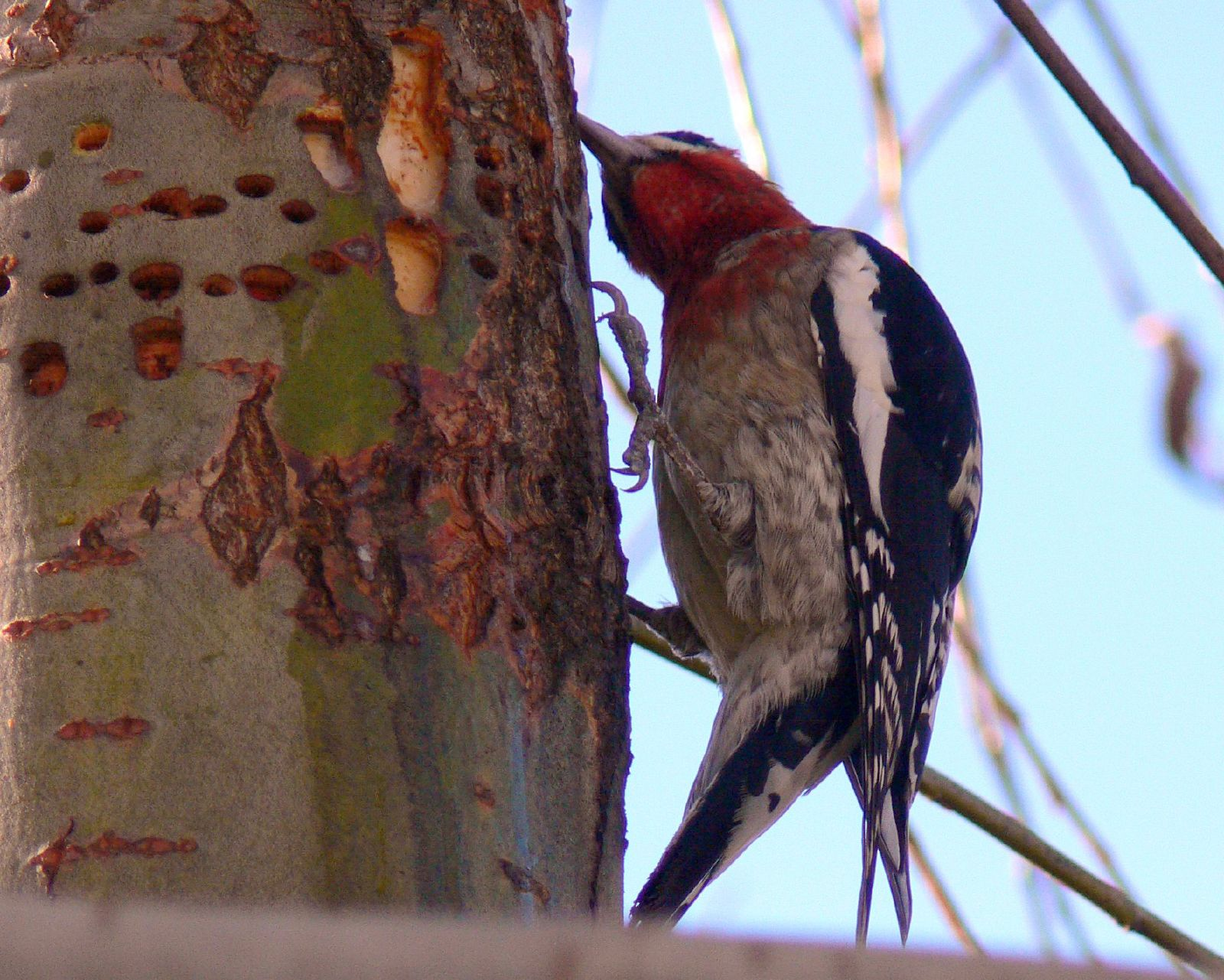 Red-breasted-Sapsucker (Sphyrapicus ruber dagetti)